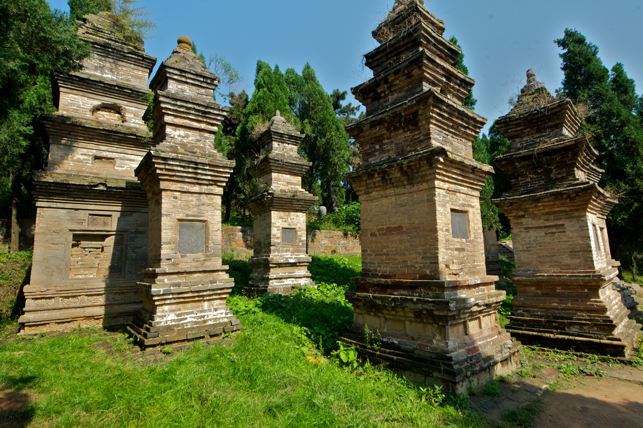 Pagoda Forest, Shaolin Temple.